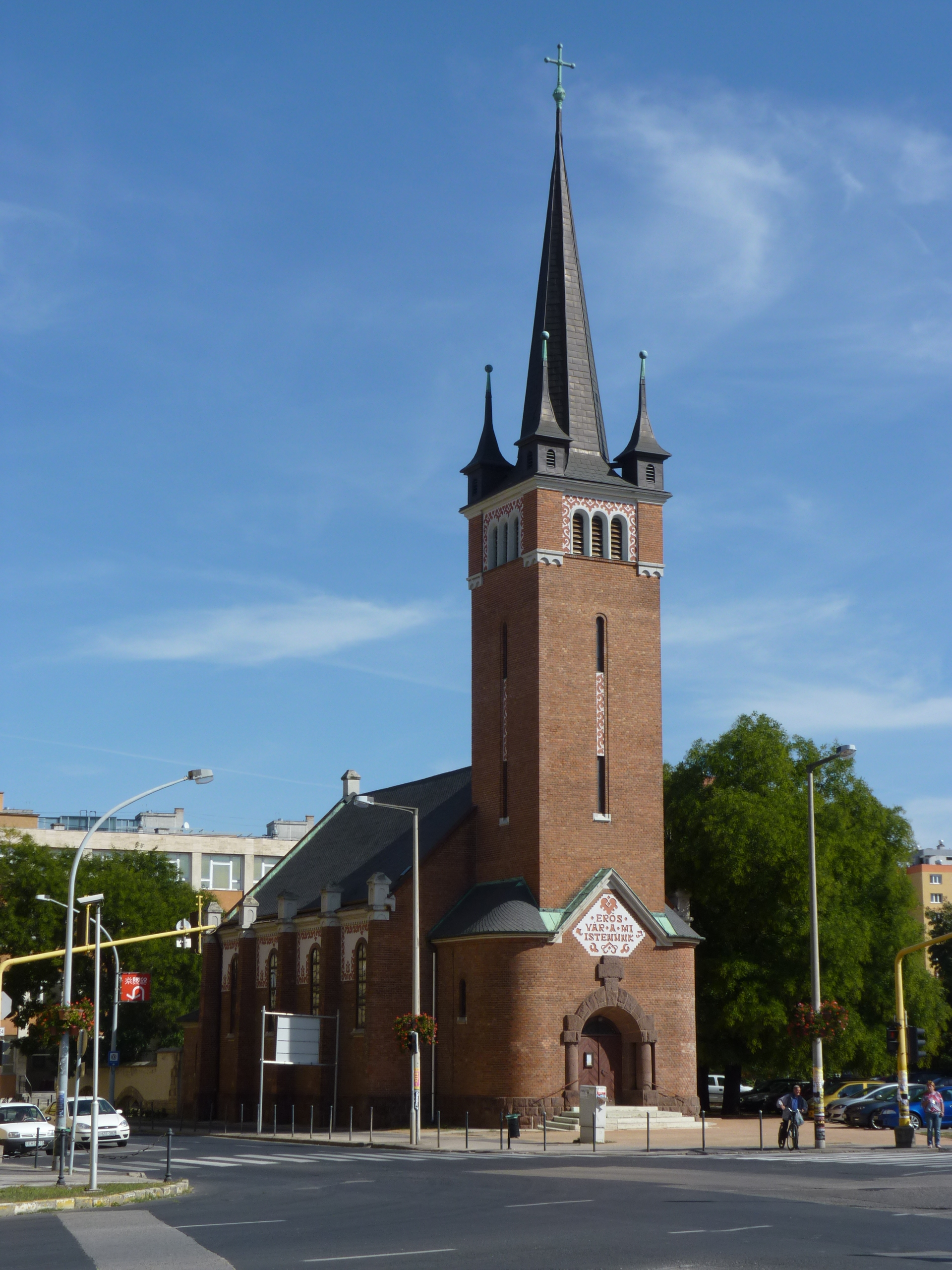 Lutheran church of Székesfehérvár